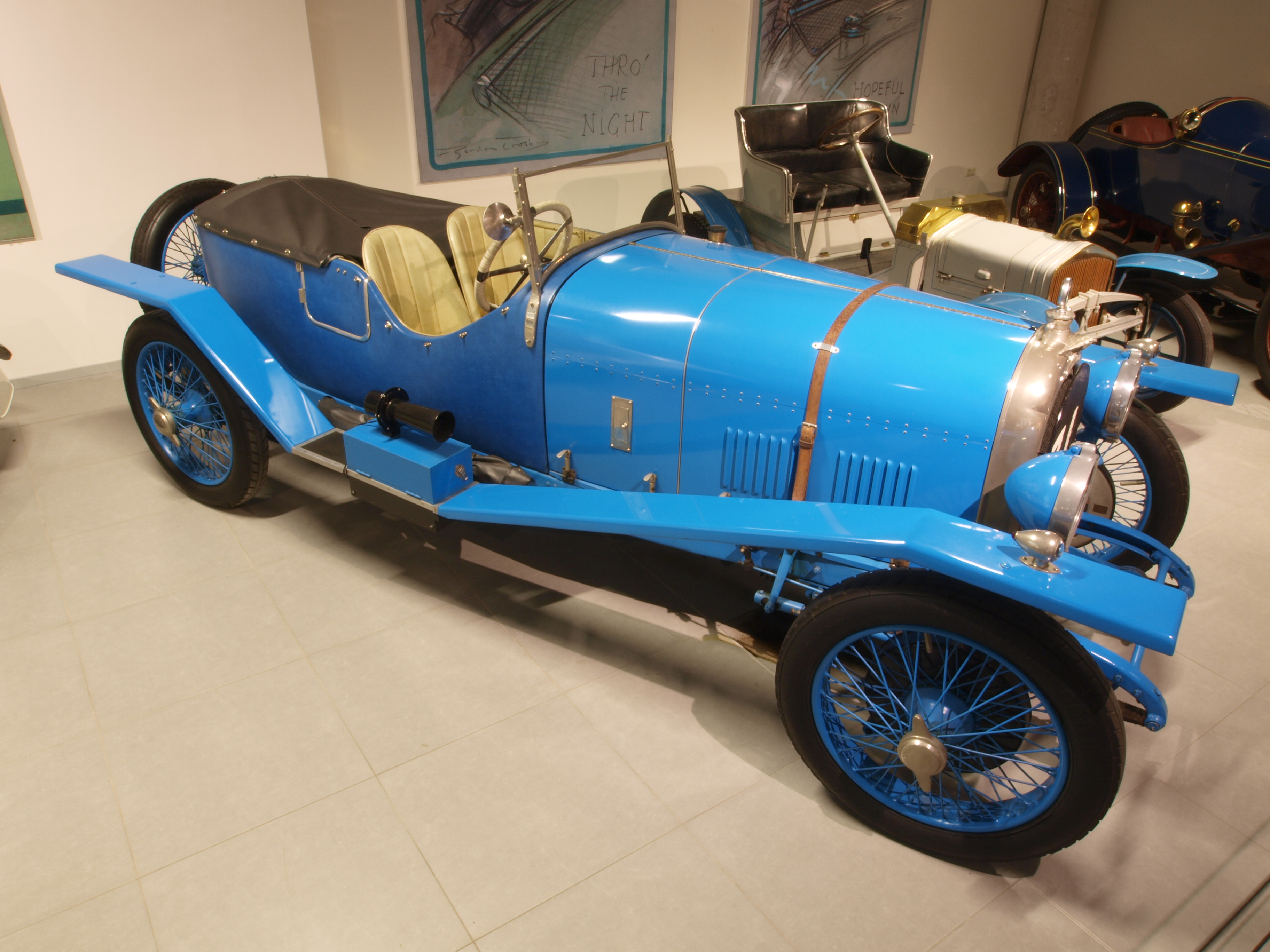 Photographed at the Louwman museum / Louwman Collection, The Netherlands.